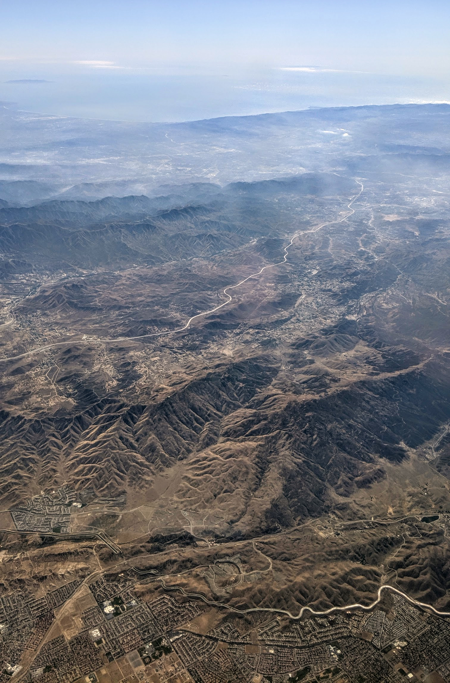 Aerial view from the north of Antelope Valley Freeway (CA 14) through the San Gabriel Mountains, with the California Aqueduct at Palmdale visible in the foreground